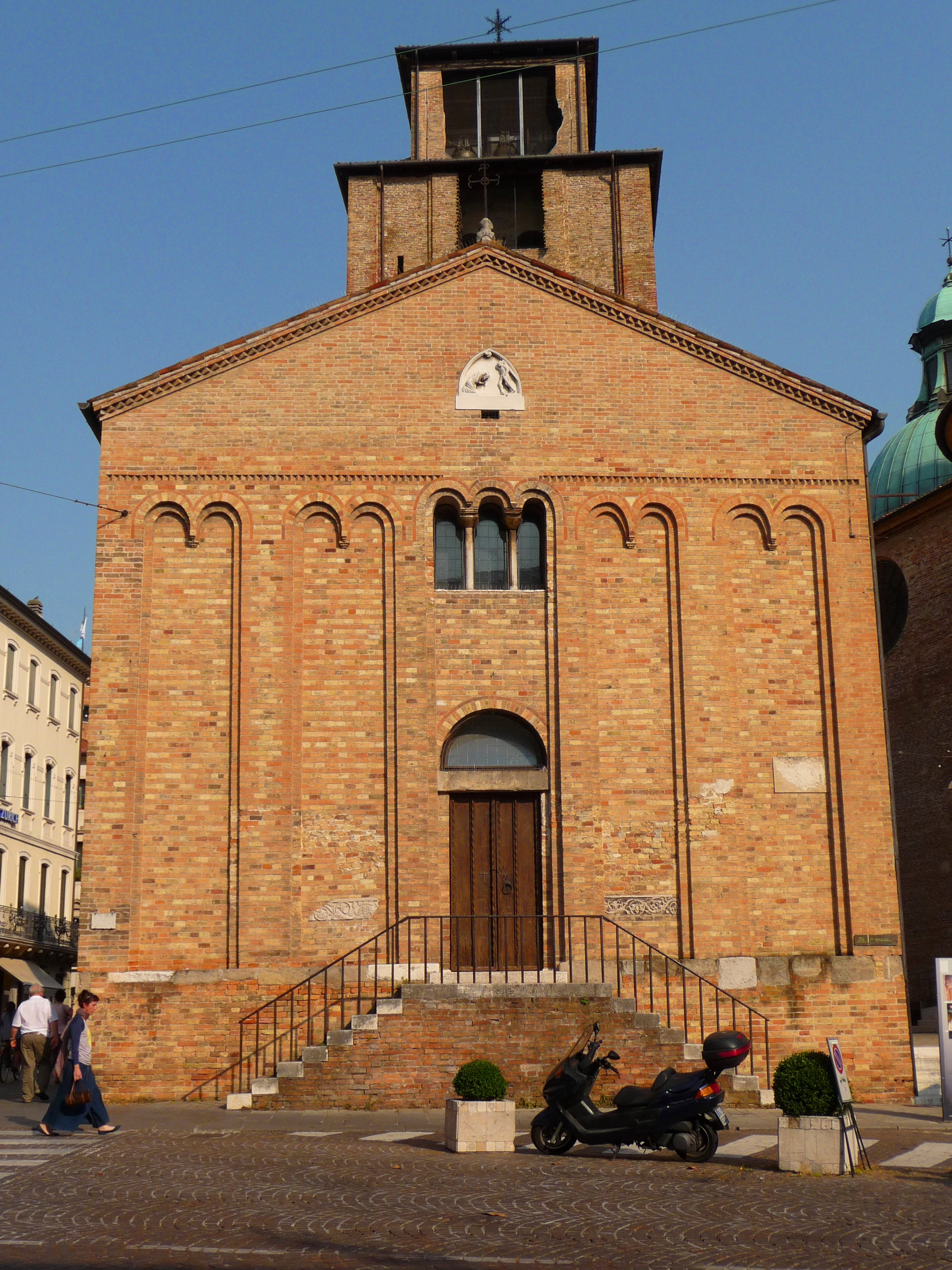 facade of the chiesa di San Giovanni Battista, Treviso (IT)